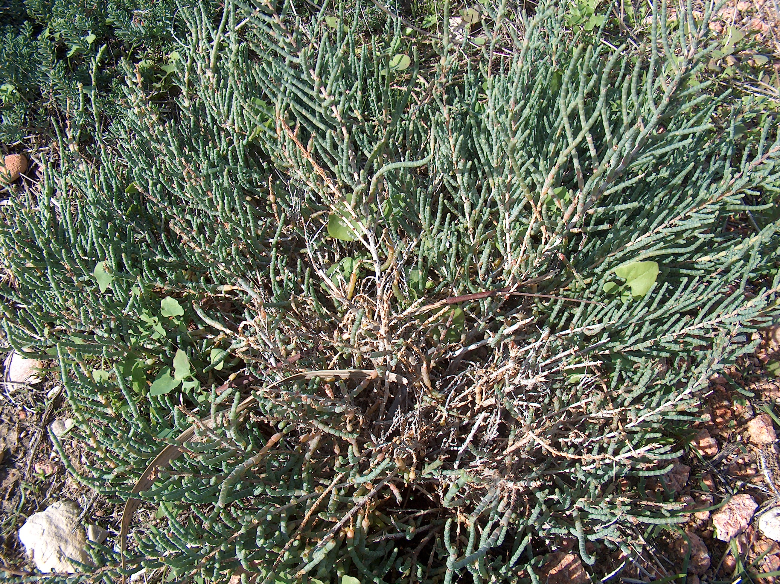 Arthrocnemum macrostachyum (Moric.) K.Koch (Syn. Arthrocnemum glaucum (Delile) Ung.-Sternb.) in Quartu Sant'Elena, Regional Park of Molentargius-Saline (Sardinia)